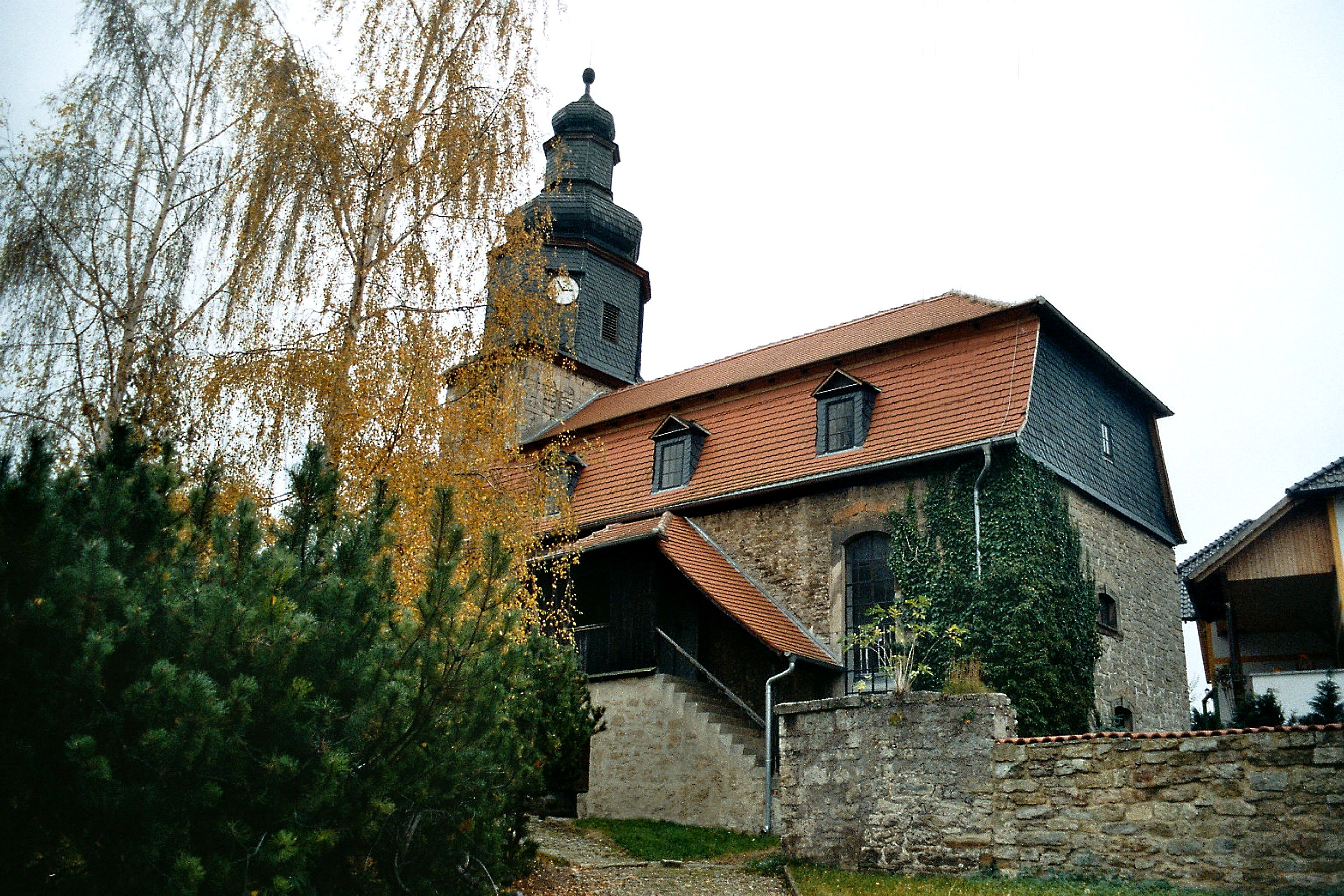 Lehnstedt, the village church